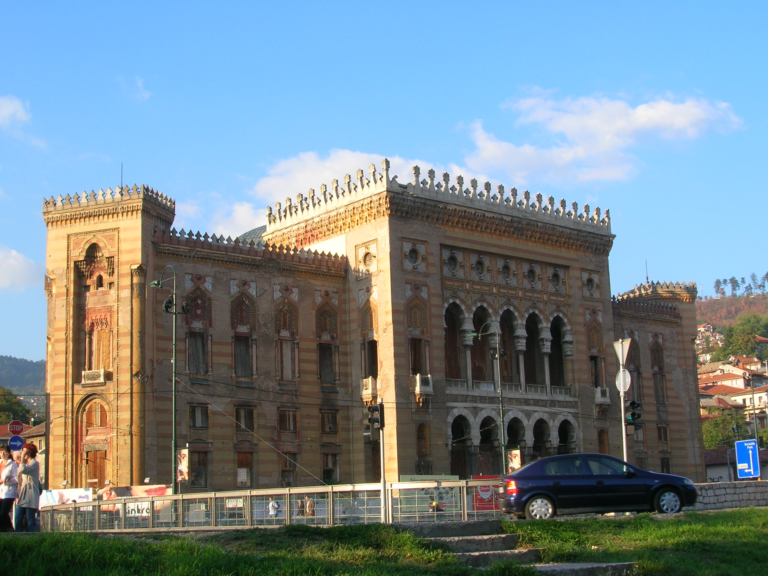 The ruins of the City Hall/National Library, deliberately shelled by the Serbs during the war.